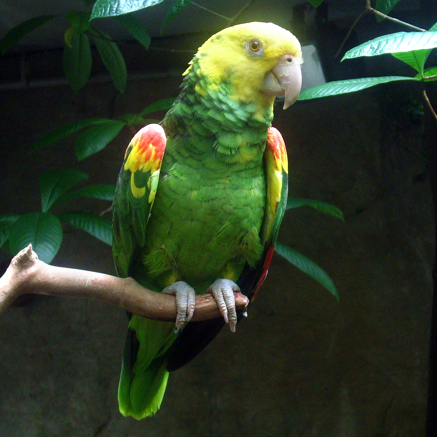 Yellow-headed Amazon (also known as the Yellow-headed Parrot and the Double Yellow-headed Amazon) at Vancouver Aquarium, Canada.